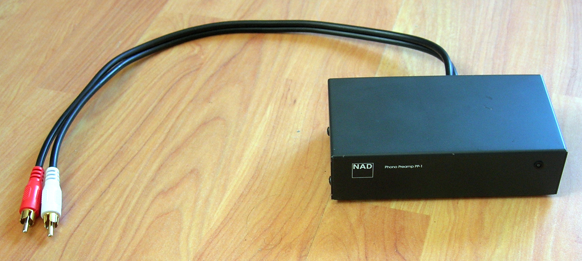 NAD Phono Preamp PP-1